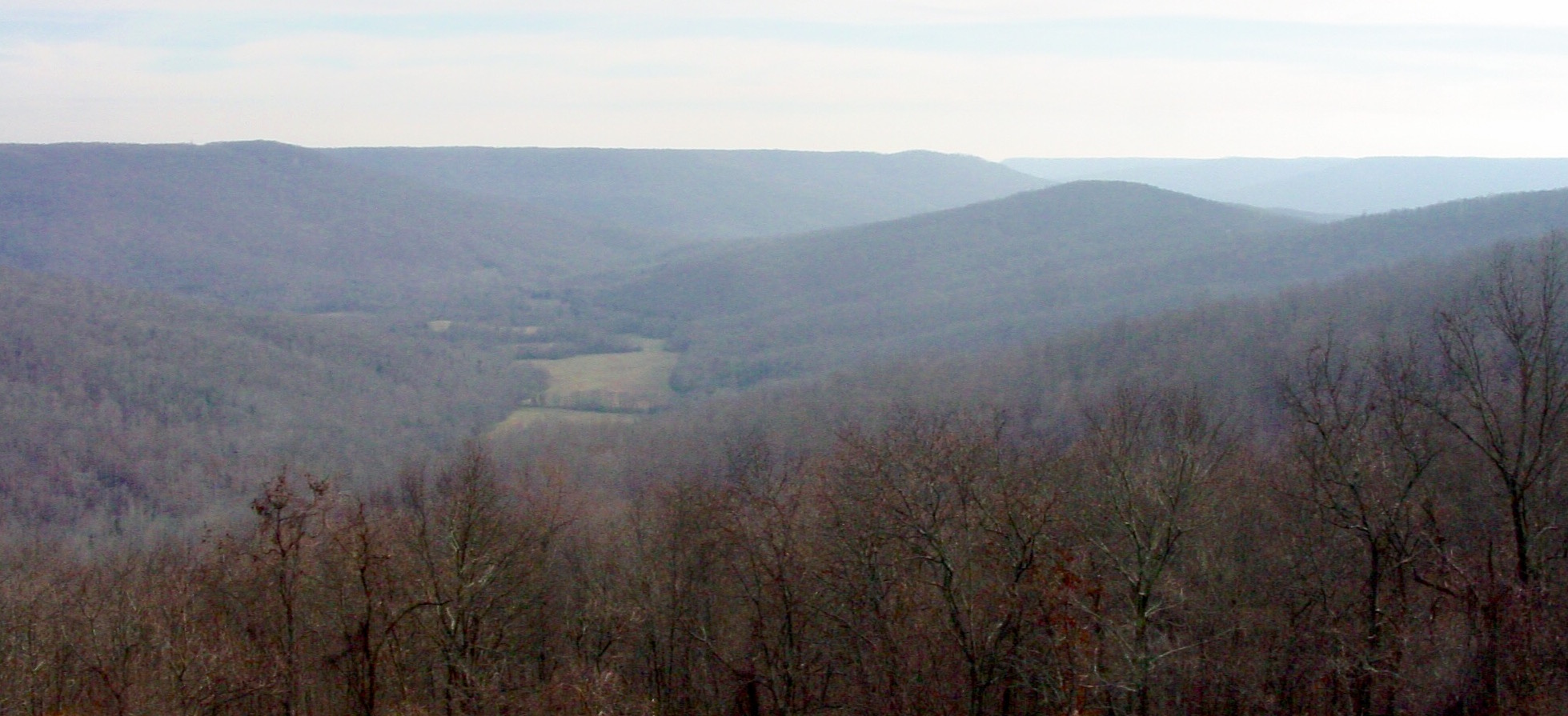 Lost Cove, Franklin County, Tennessee viewed from Rattlesnake Spring Road, Sewanee, Tennessee. This is the upper isolated cove section.